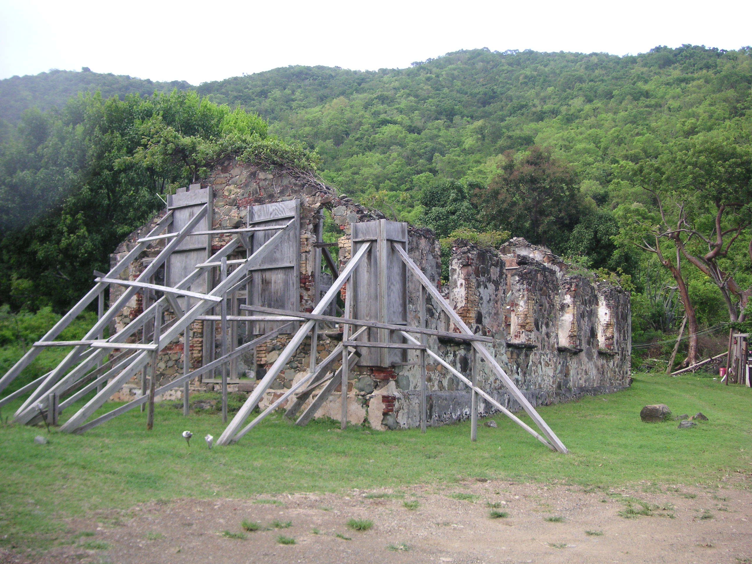 St Phillip's Church, Kingston, Tortola, British Virgin Islands Photograph by Colin Riegels (2006)